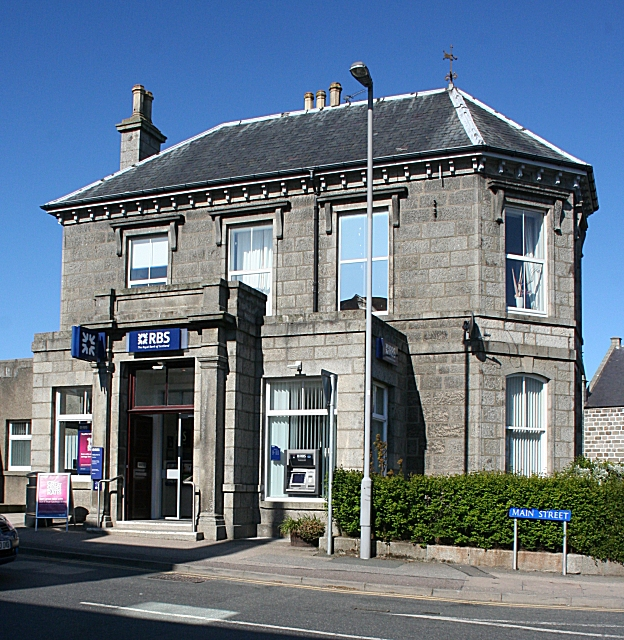 Royal Bank of Scotland New Deer still has many of the services that other villages have lost, perhaps because of its distance from any larger towns. Noting its position and the angled south elevation, I wonder whether this is the site of a former toll house?